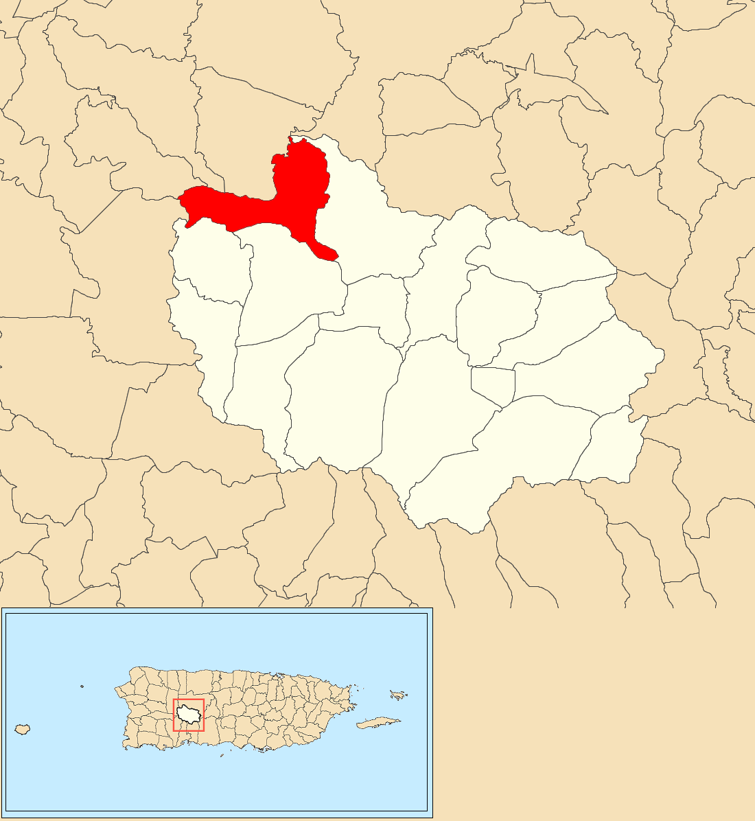 Portillo, Adjuntas, Puerto Rico locator map